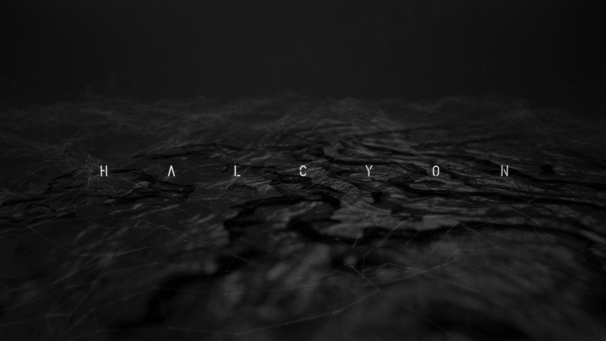 Still from the Halcyon title sequence